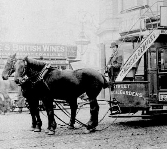 London Street Tramways Company horsecar No 32 on the Archway Tavern to Euston Rd route